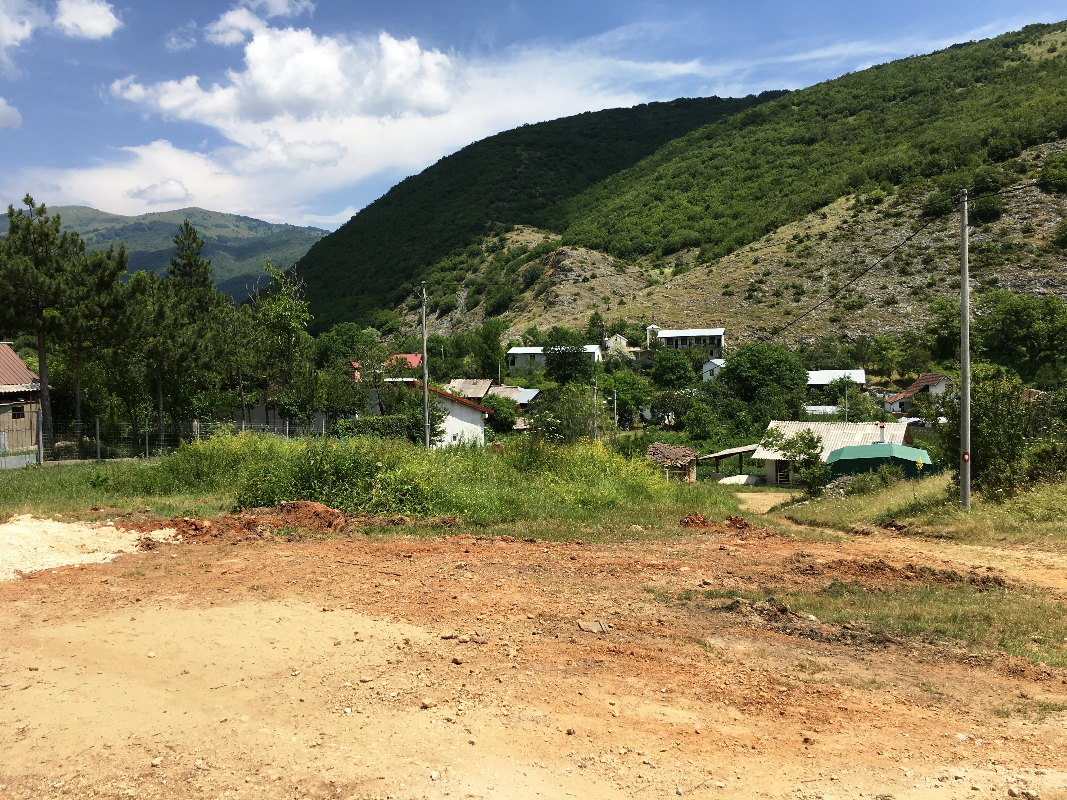 View of the village of Krapa